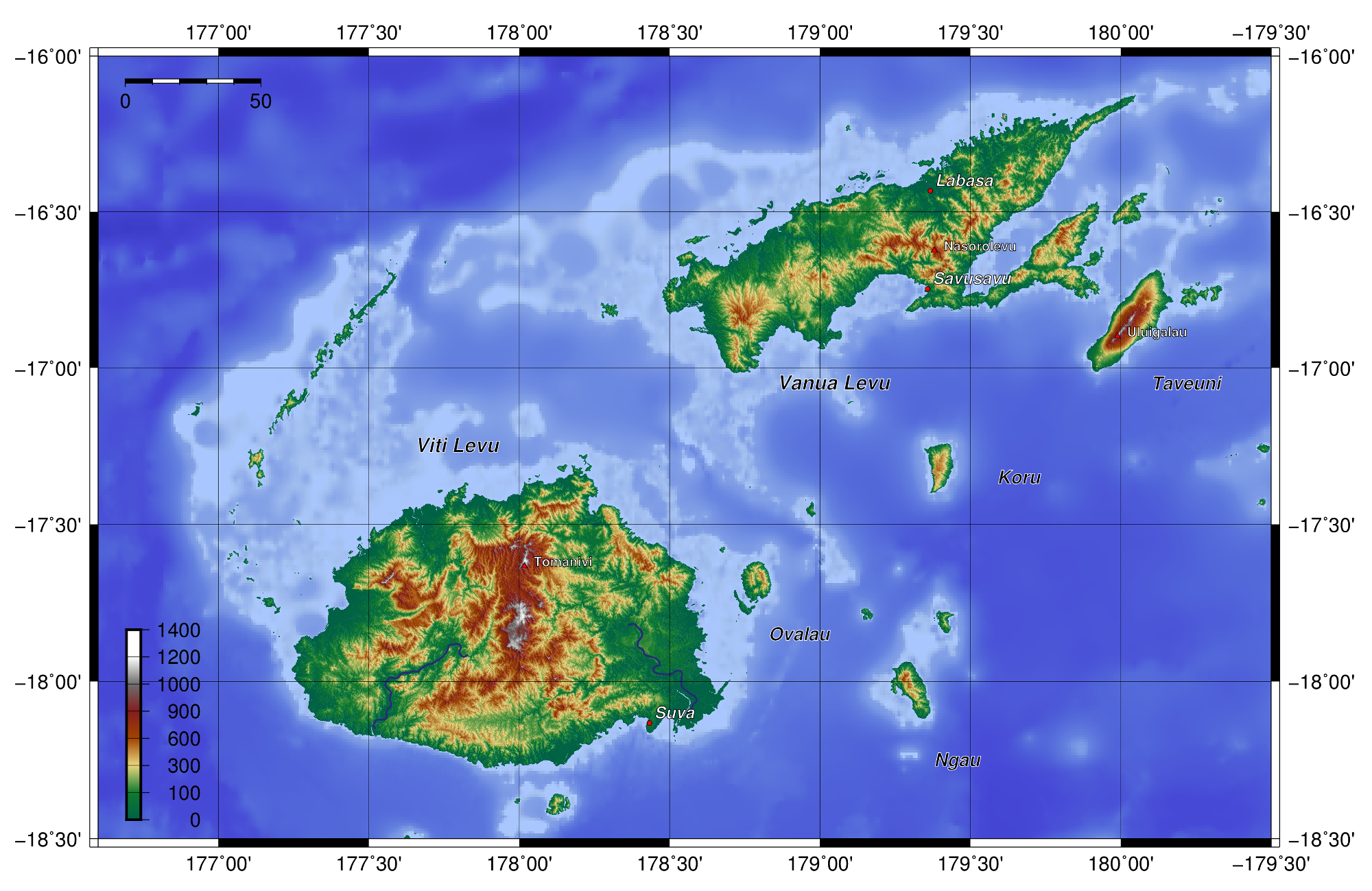 Topography of Fiji, created with GMT 5.1.2